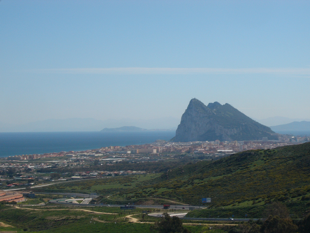 The Rock of Gibraltar and La Línea from the Campo de Gibraltar. Sierra Carbonera in the foreground, on the right. Africa in the background. The road is regional road A-383